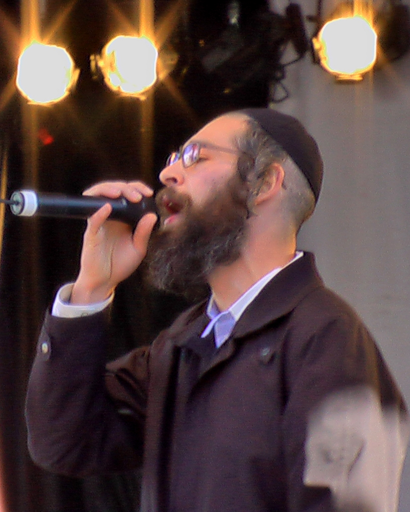 Matisyahu @ Wheeler Junction, Colorado